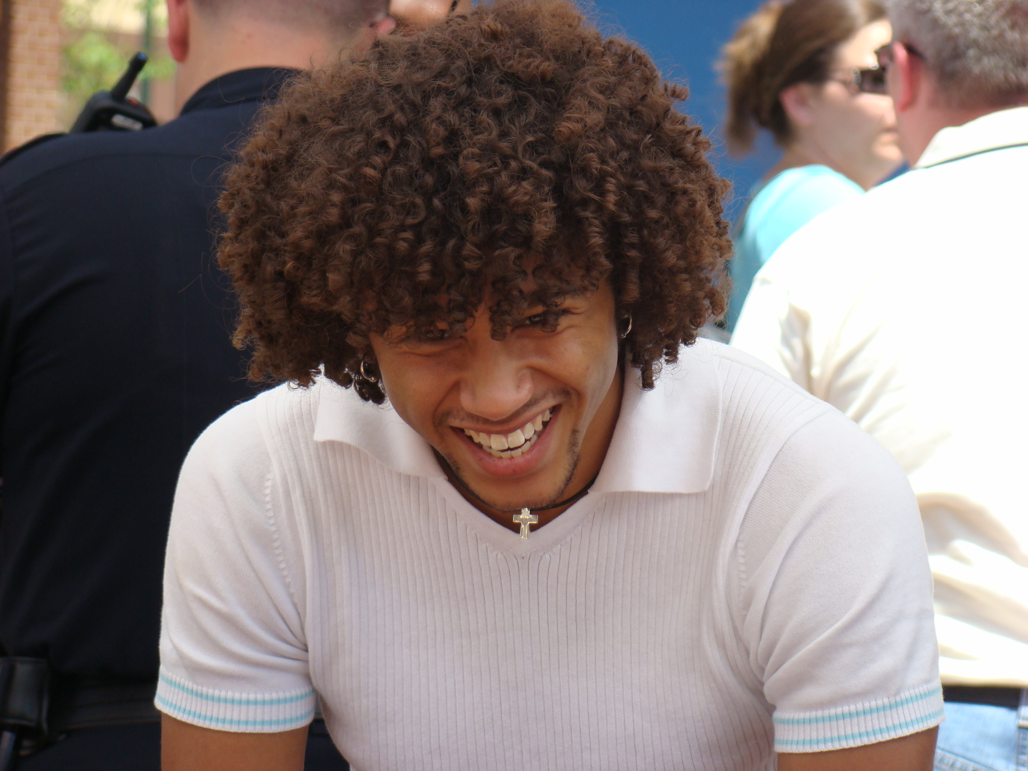 Corbin Bleu in 2007.